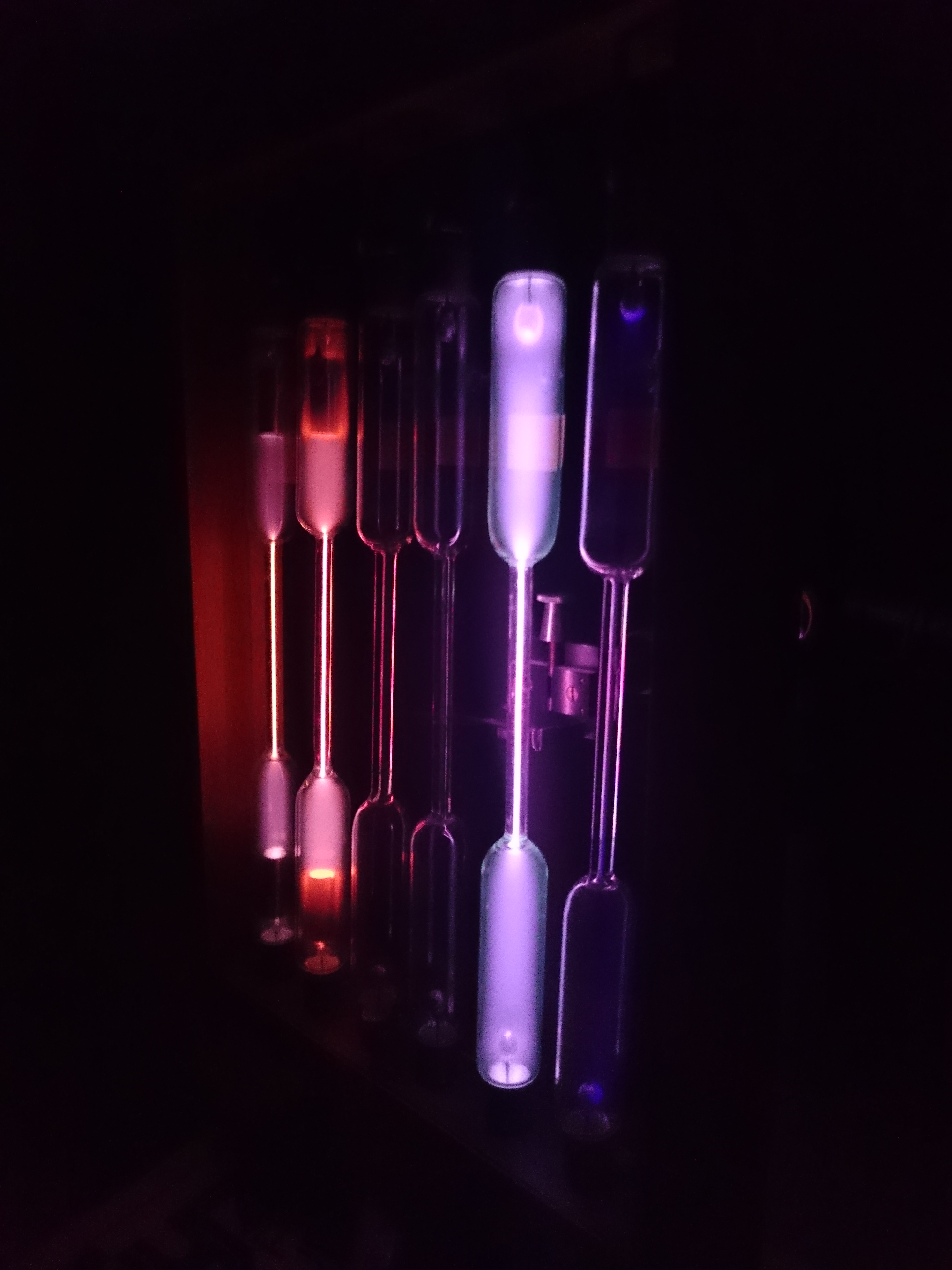 Gas discharge tubes (Geissler tubes) in a laboratory, containing various gases which produce different color spectral lines for scientific spectroscopy experiments. The light is produced by applying a high voltage between the metal electrodes at the top and bottom of the tubes. This ionizes the gas in the tube, which produces light by fluorescence when the electrons recombine with the ions.